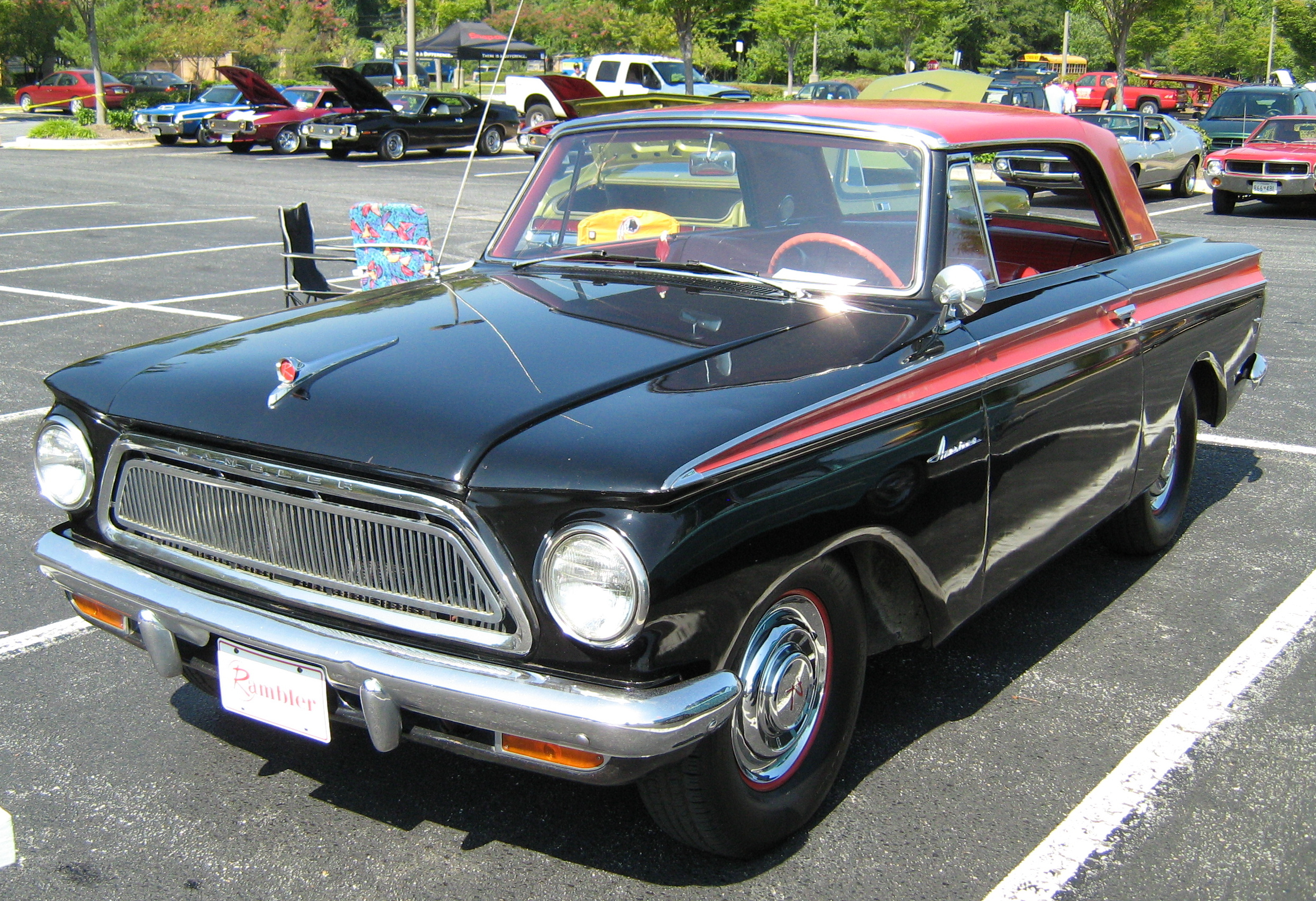 1963 Rambler American two-door hardtop, a compact car made by American Motors Corporation (AMC). This is the "top-of-the-line" 440-H version featuring a one-model-year- only design of a simulated "convertible" steel roof. This "sporty" model came with standard individually adjustable reclining seats and center console. This car has the optional "Twin-Stick" manual overdrive transmission.